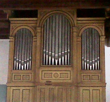 The Mission Station which is an important place of interest because of both its history and its architectural beauty, was founded in 1808 by the Moravian missionaries Kohrhammer and Schmidt under the auspices of Governor Lord Caledon on the site occupied by the Dutch East India Company's military and cattle outpost, “t Groenekloof", founded by Dutch Governor Simon van der Stel in 1679. The site houses the original church building still used today for the same purpose, the “Kleine (Little) Post” military outpost converted to a parsonage, mission houses now used as clerical buildings, a 1935 school house still used for this purpose, the historic shop used as a restaurant, the historic water mill restored and used as a local museum, a slave tree, a reed and thatch historic house, historic bakery with replica outside oven and a more recently constructed community hall. This media shows a South African Protected Site with SAHRA file reference 9/2/060/0004.